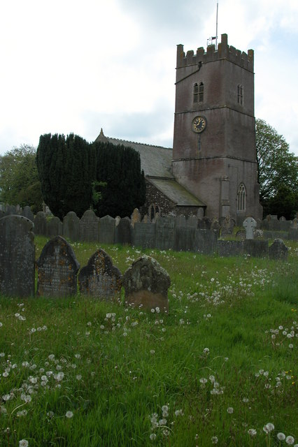 Burrington Church. Holy Trinity.